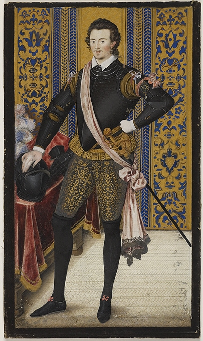 Cabinet miniature of Sir Robert Dudley (1574-1649) English explorer, styled Earl of Warwick and Duke of Northumberland.